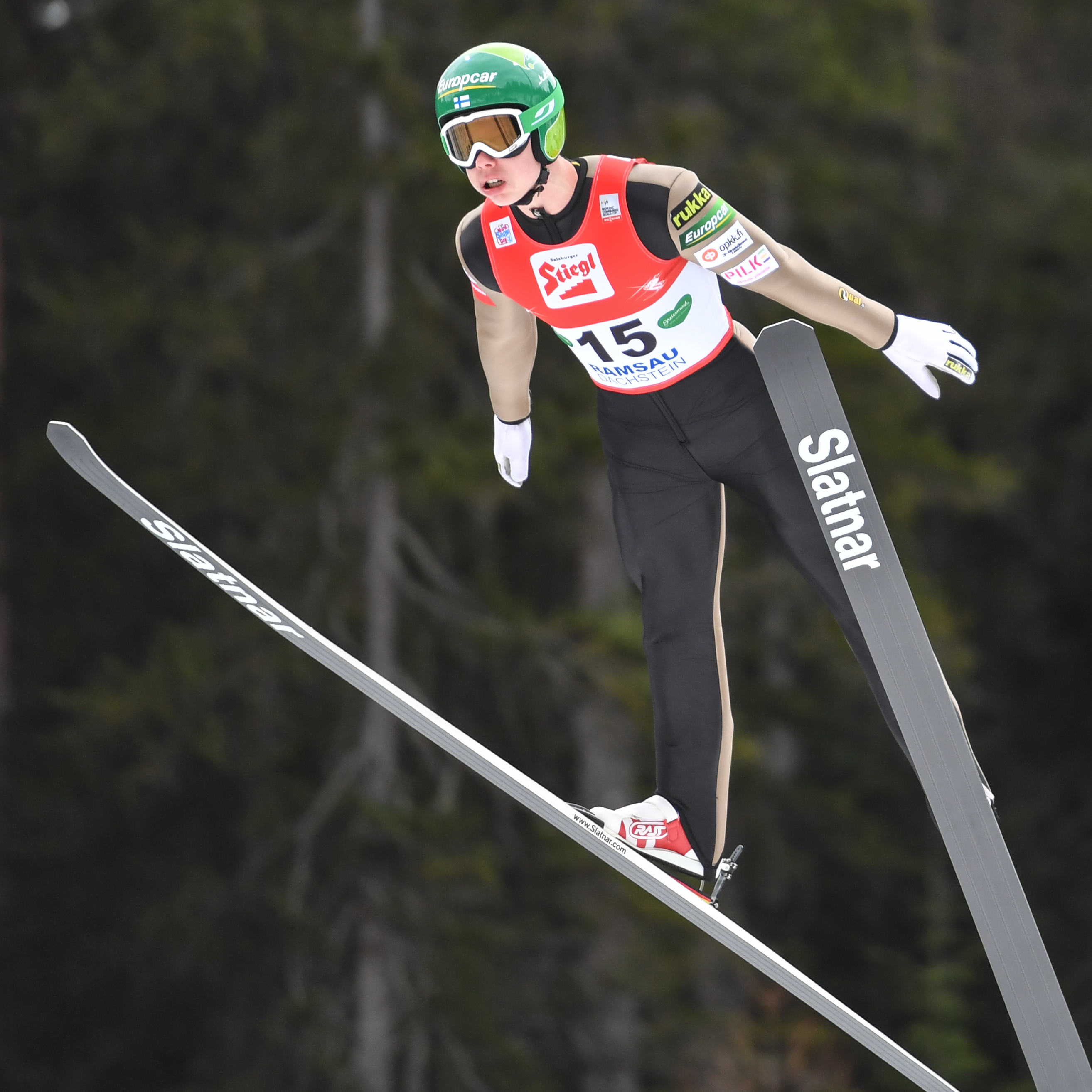 FIS World Cup Nordic Combined, Ramsau/Austria, 2016-12-16 to 2016-12-18.